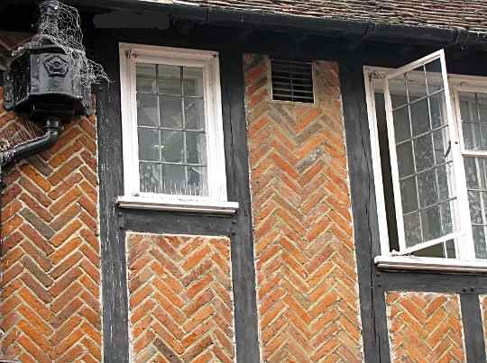 Herringbone pattern brickwork, medieval Canterbury UK Bill Bradley, aka builderbll, billbeee My own work Feel free to use the work without removing my attribution. You can contact me at my website for higher definition images.My site.)